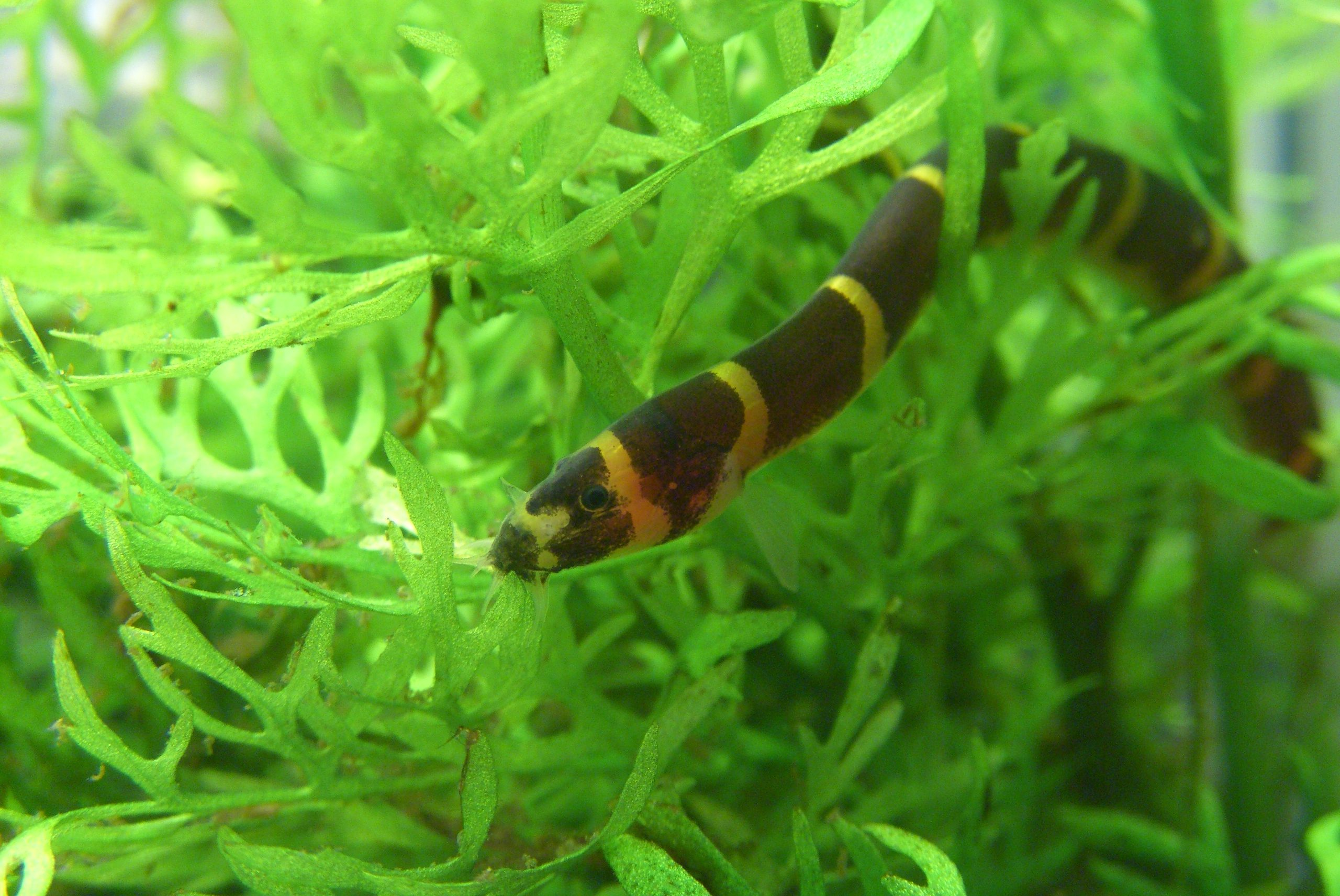 Kuhli loach, Pangio kuhli